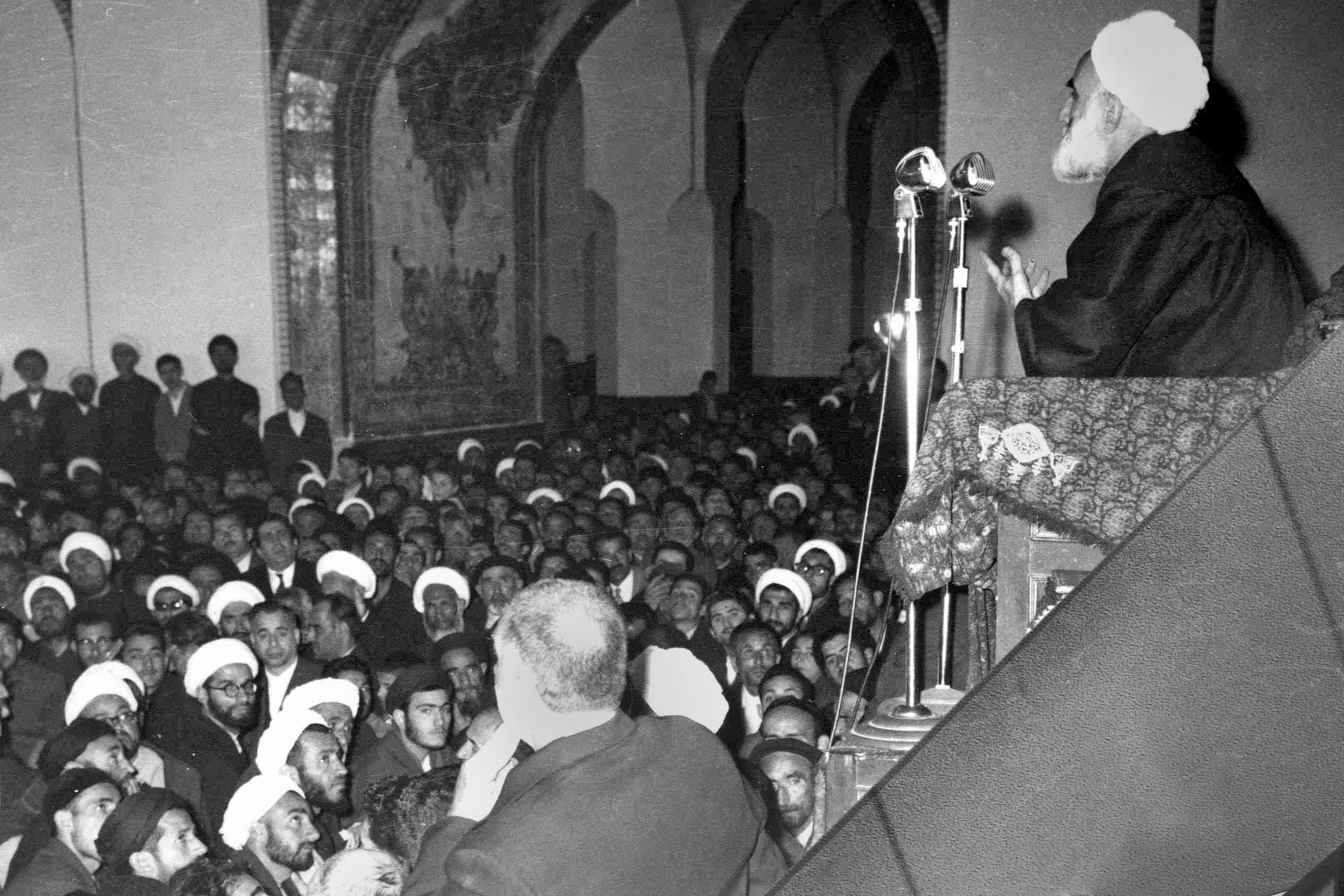 Mohammad Taghi Falsafi